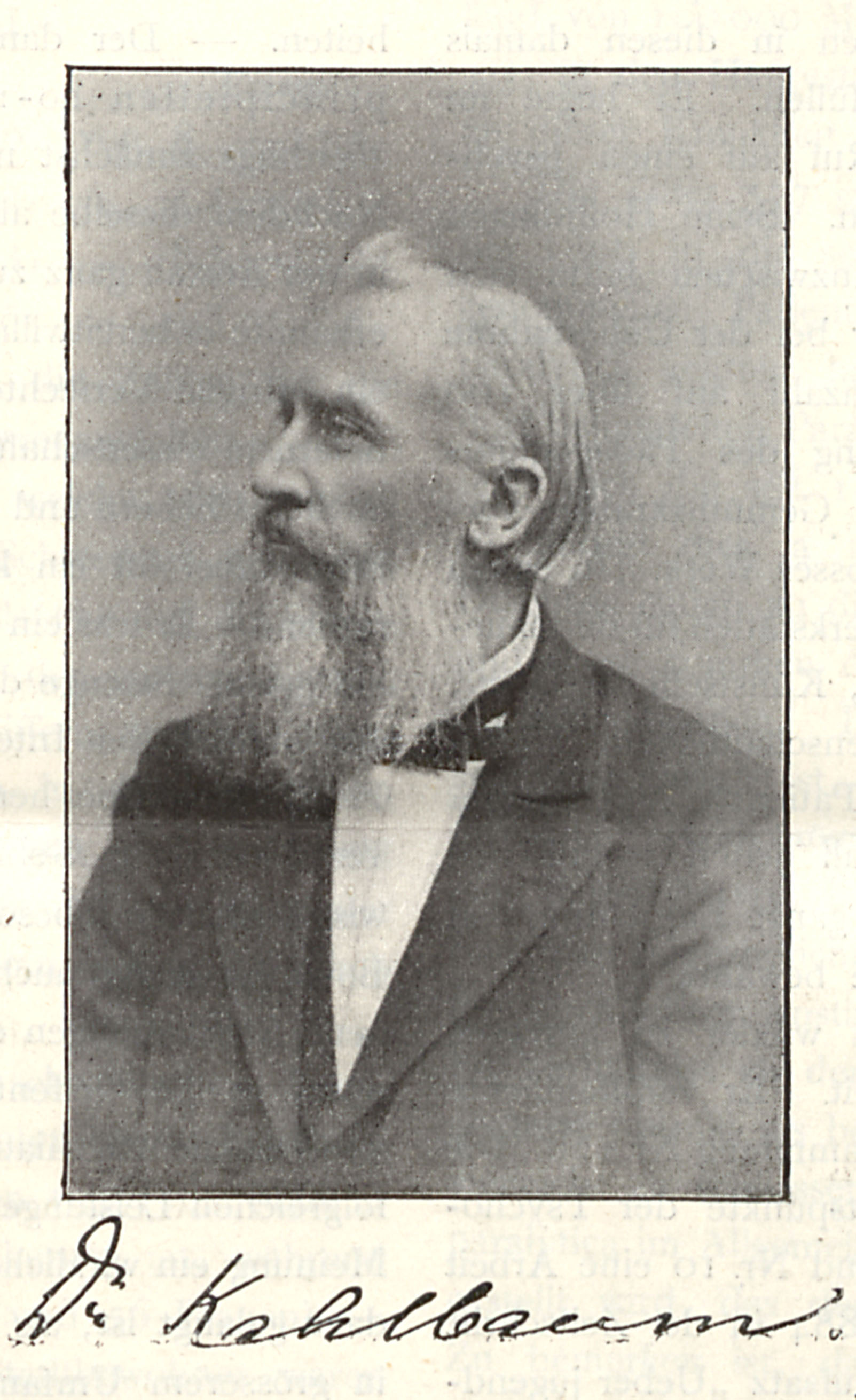 Karl Ludwig Kahlbaum